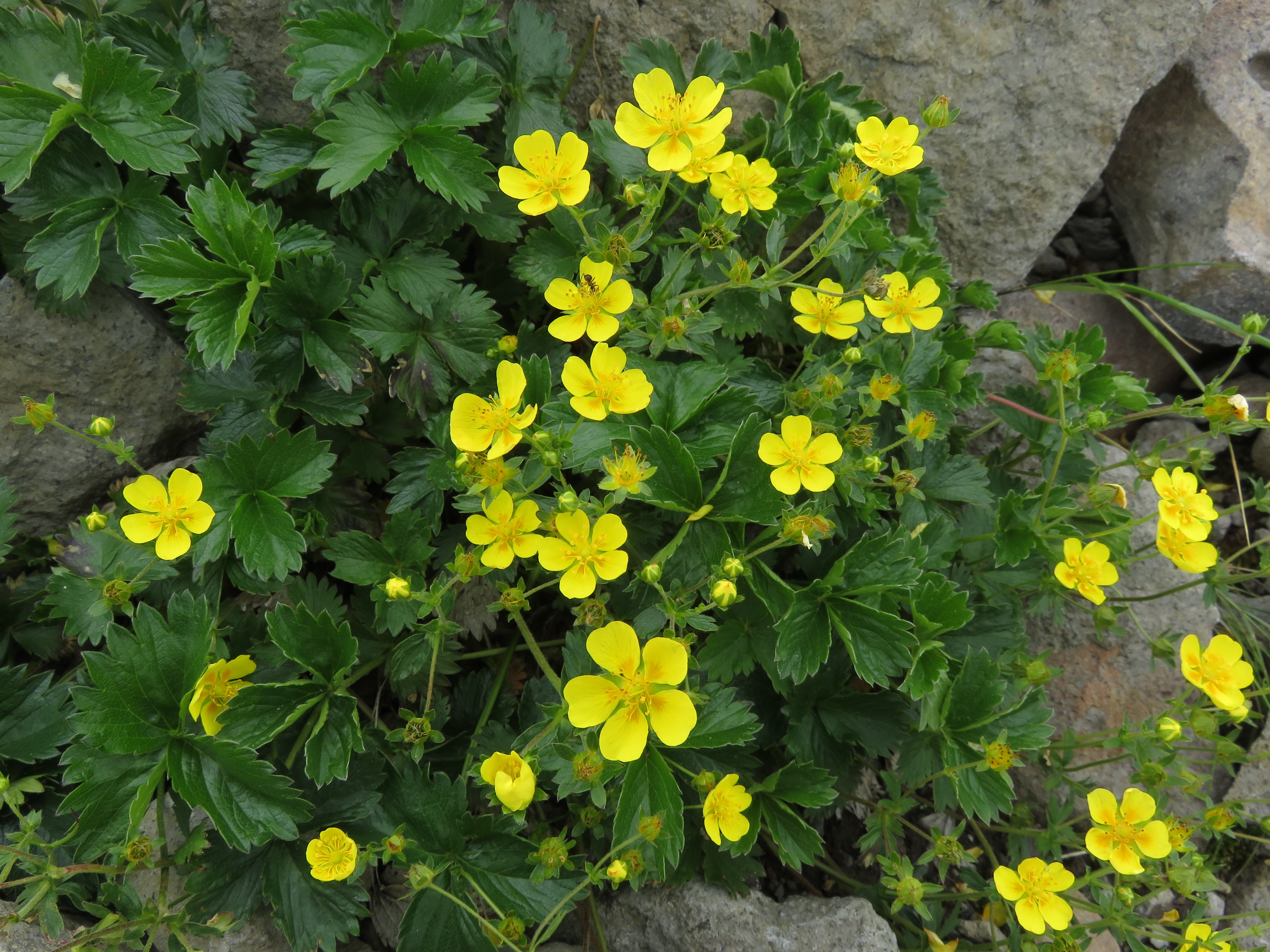 Potentilla matsumurae, Mount Bandai, Fukushima pref., Japan